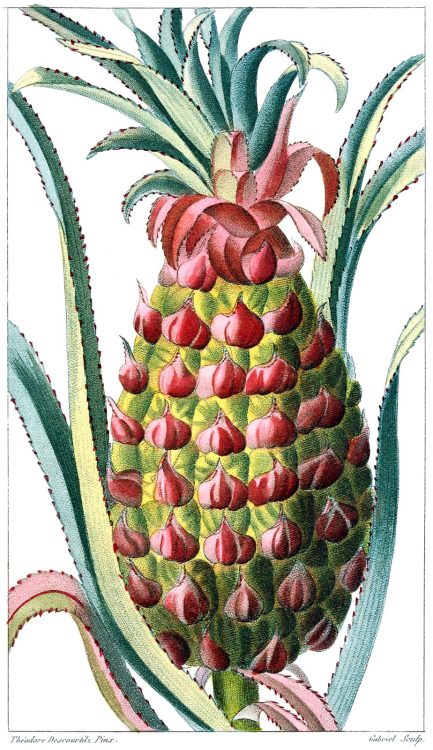 One of a series of plates drawn by Jean-Théodore Descourtilz (1777-1835) and used in his son's 1821 book on the flora of the Antilles